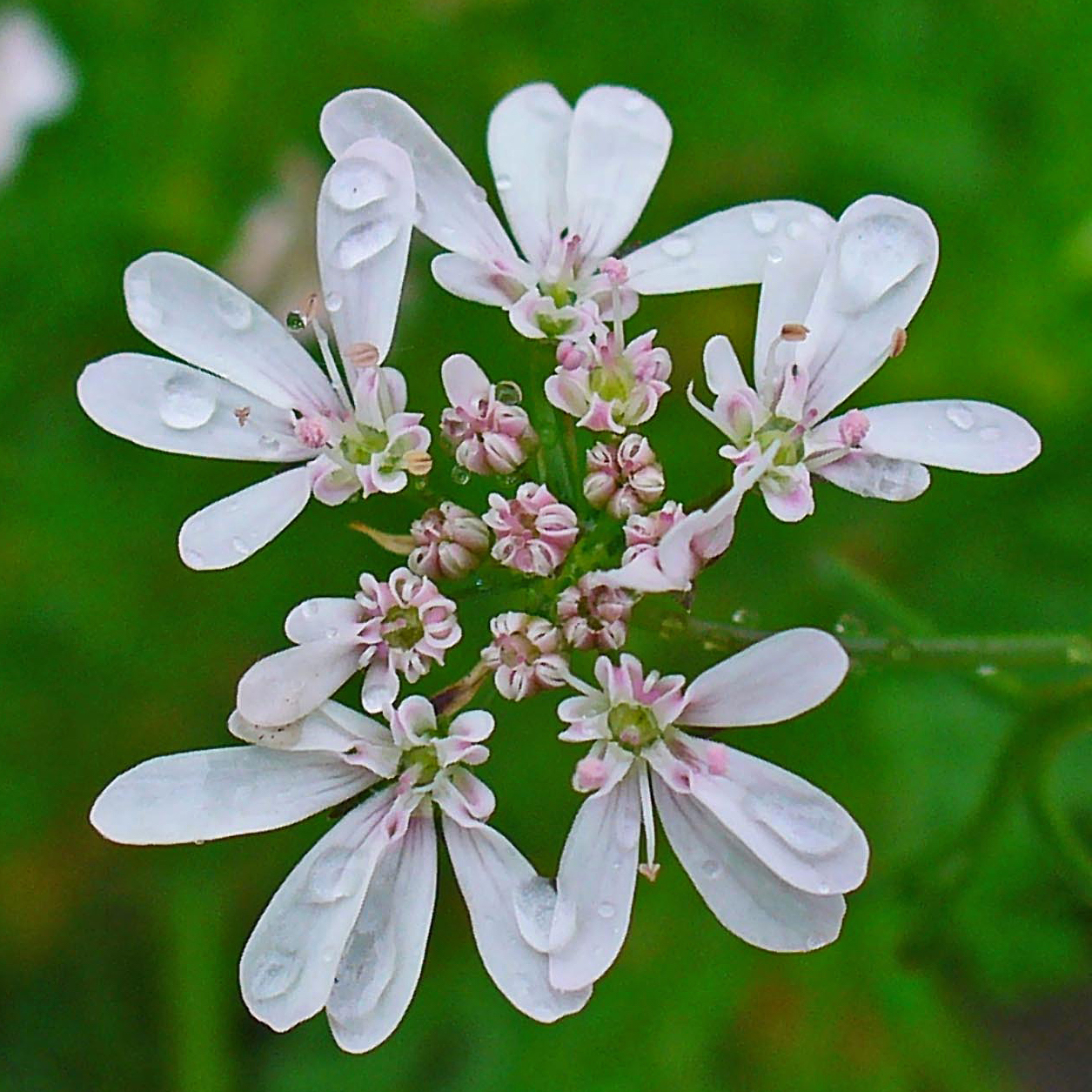 Coriandrum sativum, Apiaceae, Coriander, Chinese parsley, flowers; Botanical Garden KIT, Karlsruhe, Germany. The seeds are used in homeopathy as remedy: Coriandrum sativum (Coriand.)